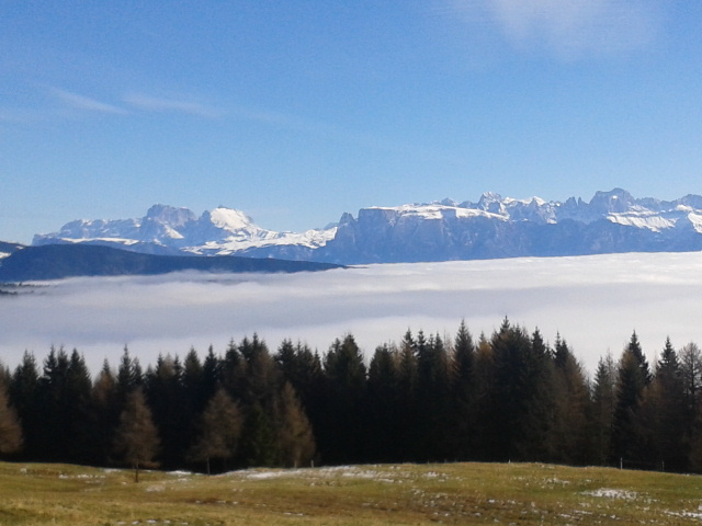 Panoramic view of the Dolomites and its Rosengarten group, above the Bolzano valley in South Tyrol, covered in thick fog on a November's day in 2013